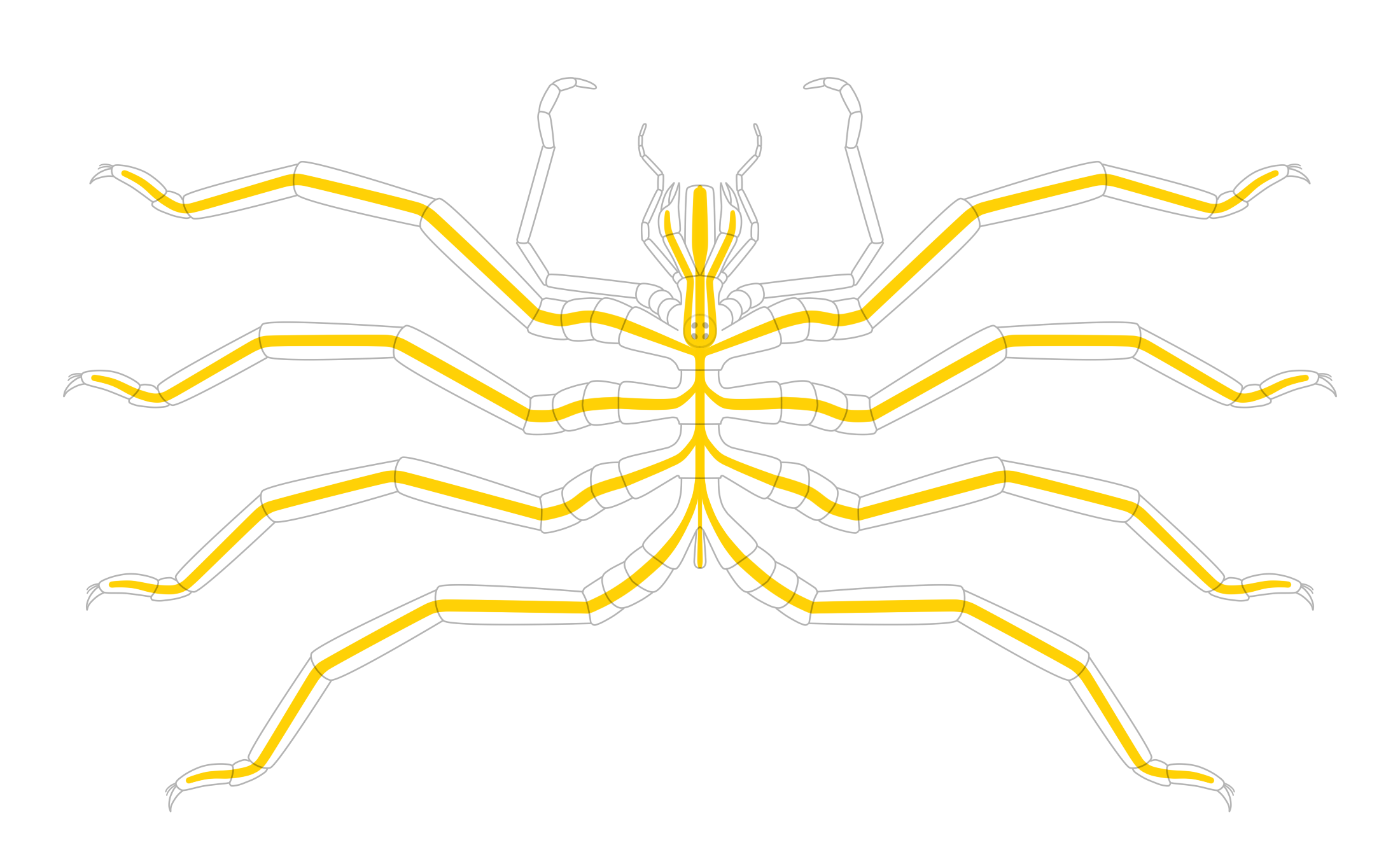 Digestive system (yellow) of Pantopoda (pycnogonid), showing pharynx, branched midgut, and midgut diverticula associated within chelifores and legs.